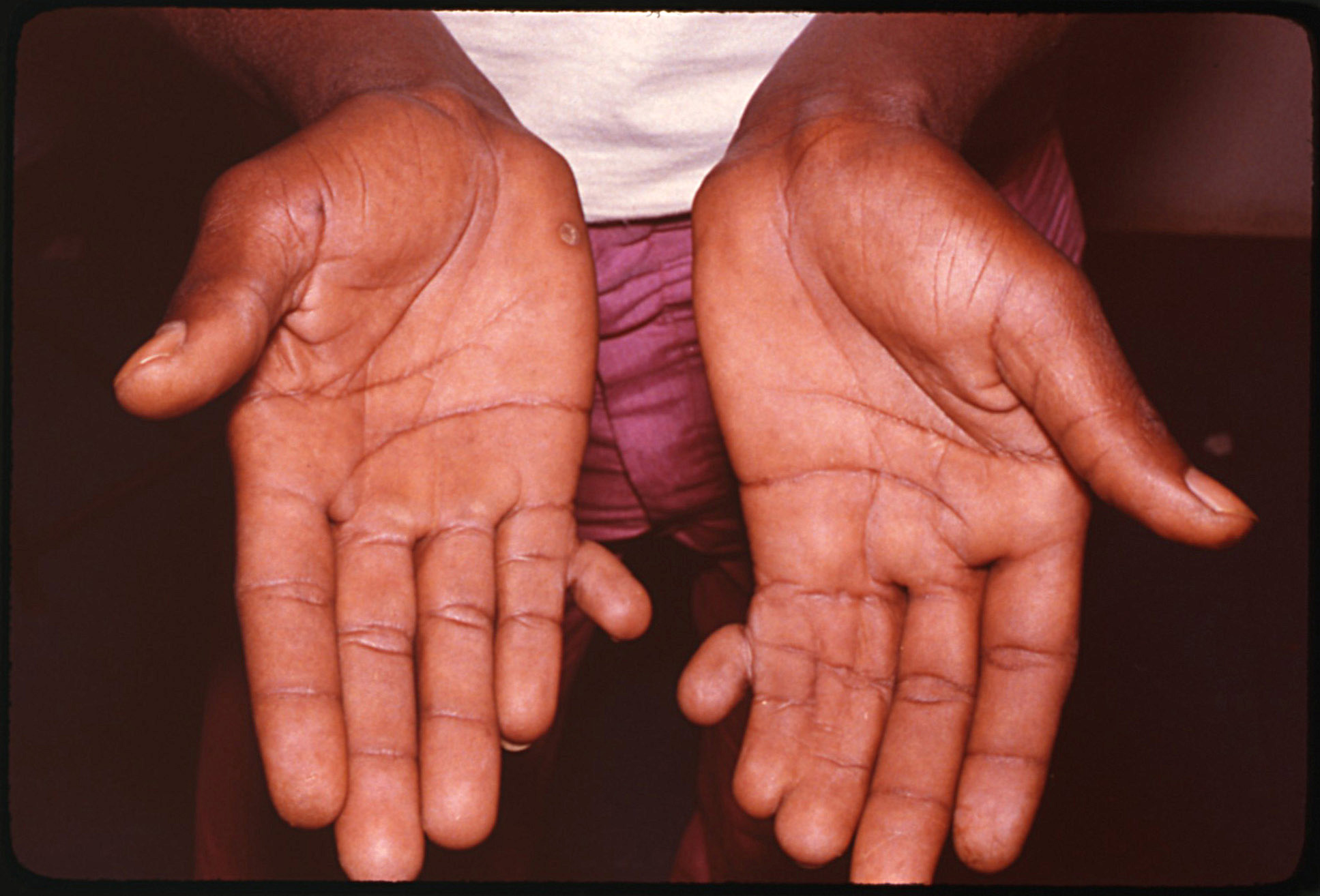 Brazil. Federal district. Upper limb. BRB UNB Hospital. Polydactyle. Extra finger. 9/1979. Photographer: Radke.